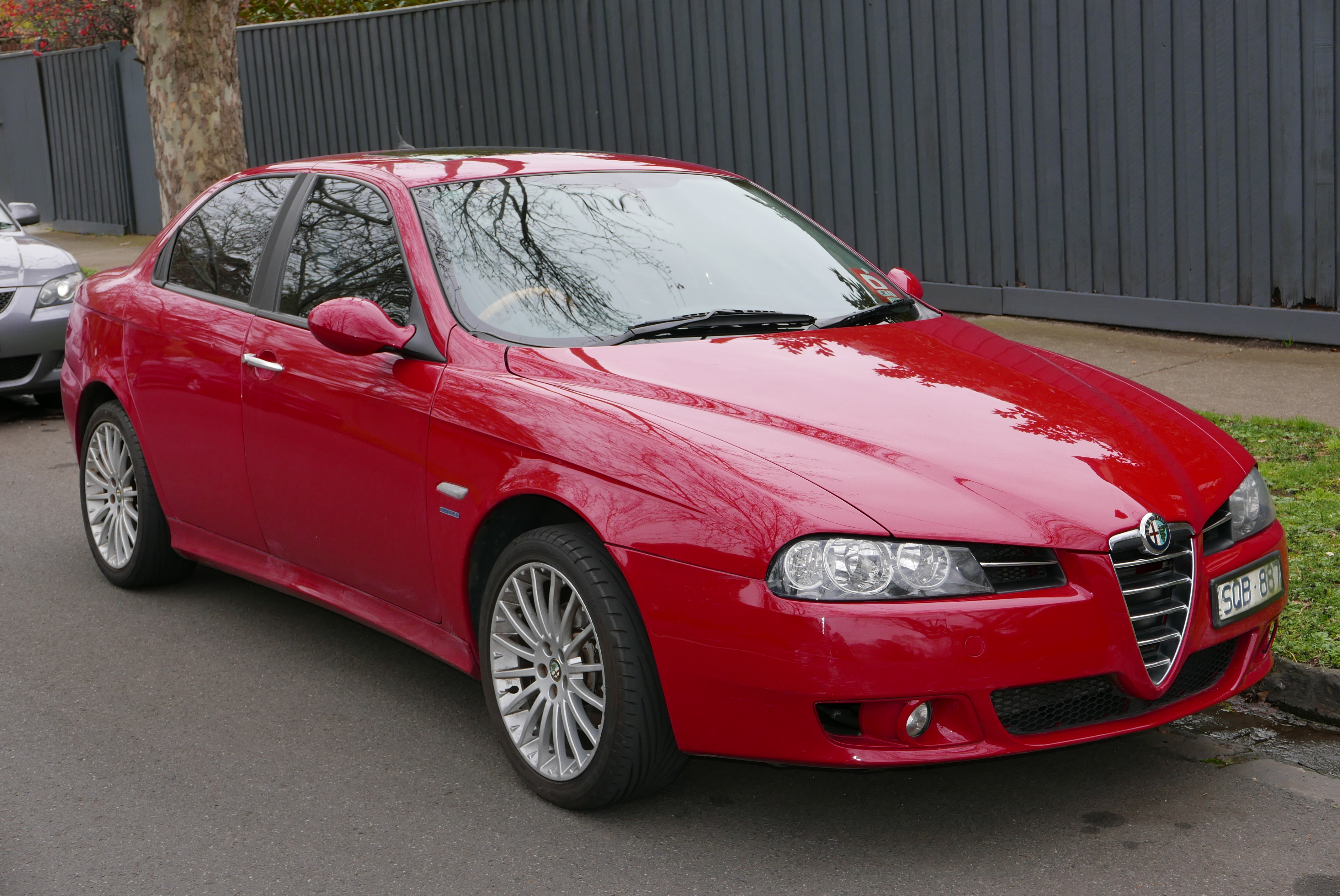 2004 Alfa Romeo 156 (MY04) JTS sedan. Photographed in Kew, Victoria, Australia. Vehicle registration enquiry results Jurisdiction Victoria Registration SQB887 Chassis code ZAR93200001340712 Engine code 937A10003733248 Compliance date 2004-01 Year of manufacture 2004